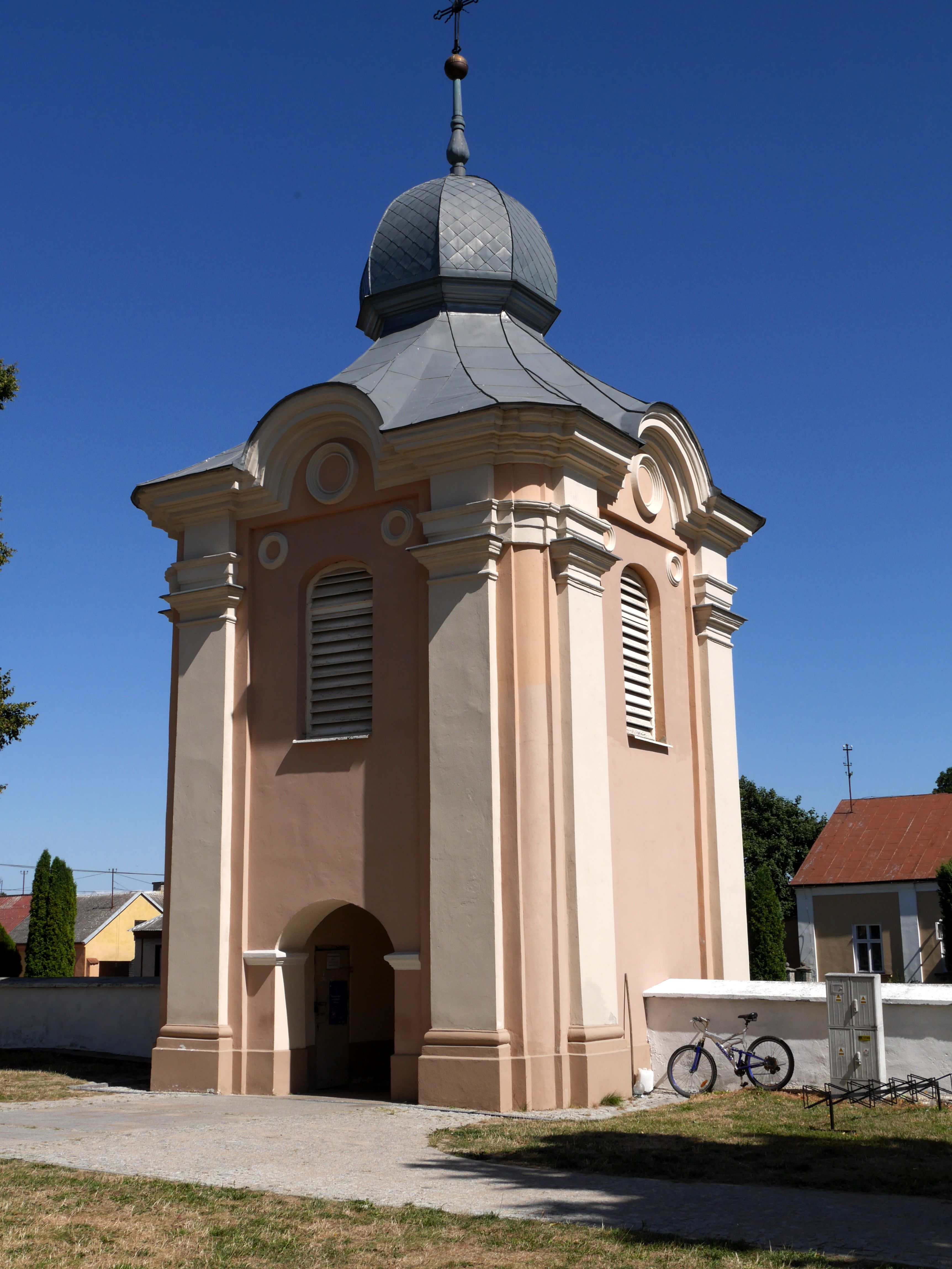 Bell tower of Saint Margaret church in Pierzchnica